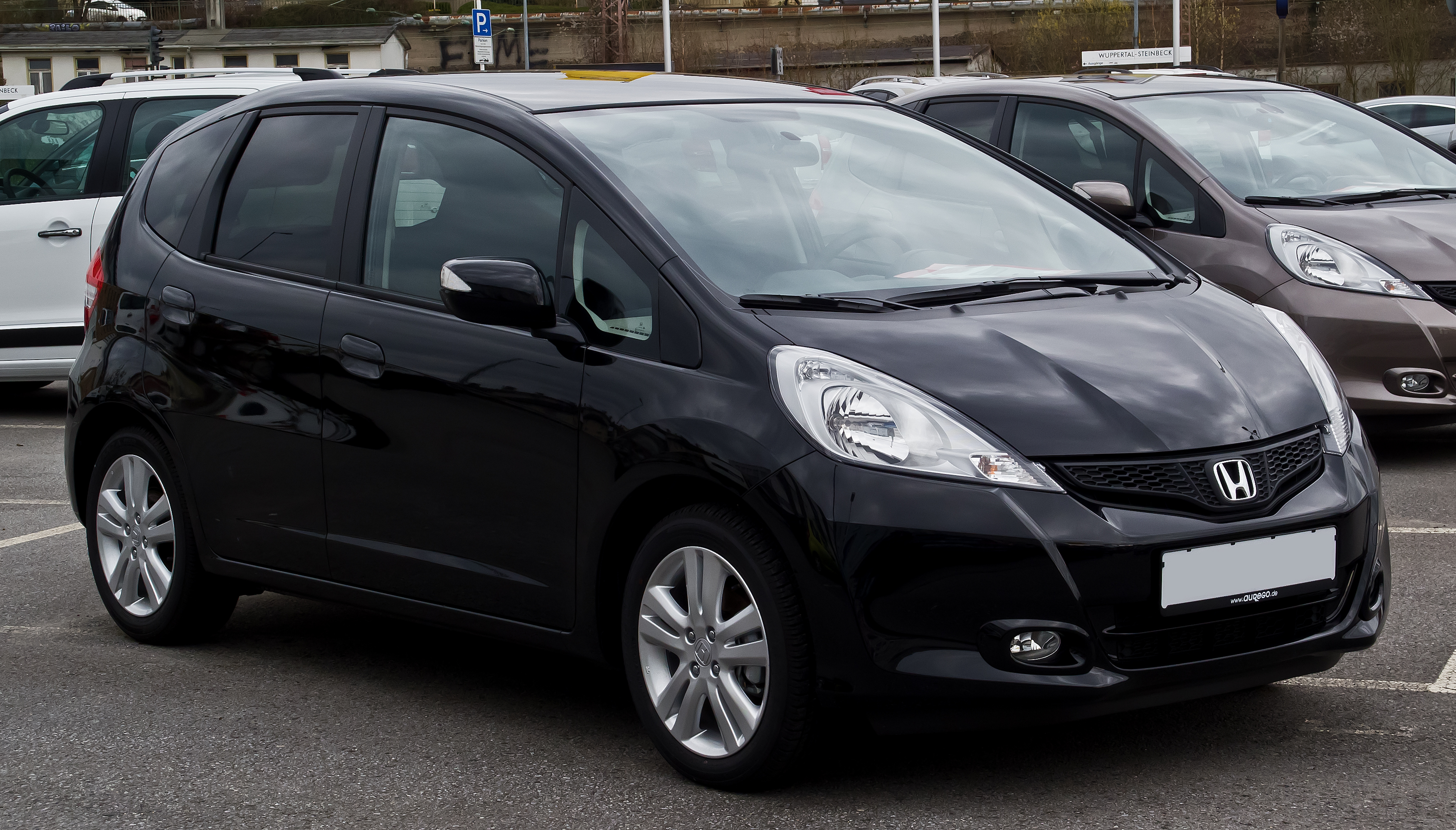 Honda Jazz 1.4 i-VTEC Comfort Plus (III, Facelift)